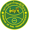 Ministry of Rail Transportation seal မြန်မာဘာသာ: ရထားပို့ဆောင်ရေးဝန်ကြီးဌာန တံဆိပ်